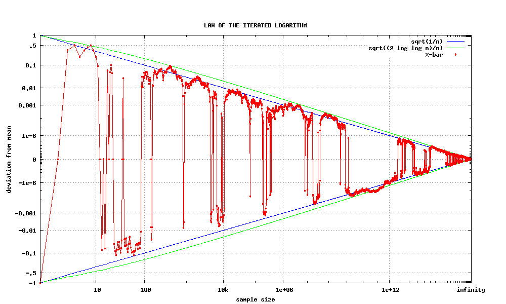 A plot of the average of n Bernoulli trials (each taking a value of +/- 1) to show the law of large numbers and the law of the iterated logorithm. The graphical difficulty here is that we want to show details for very large values of n. If the y-axis were left untransformed, all we could see is that it converges to zero. If we used a log transformation it would be upset with the negative values. So the y is transformed by something that is very close to a log transformation, namely, y^.12. (The .12 looks nice. Other small powers look about the same.) Humans are very good at seeing "straight lines". So if we transform the x-axis to be almost log also we can make the upper and lower envelopes look almost straight. The correct power is -1/2 of the power used for the y axis. So the plot is x^-.06 vs y^.12. These are basically "log(x)" vs "log(y)". But by using these values, the natural square root behaviour now is a straight line. If you have suggestions for improving the image, let me know and I can generate a new one. A detailed view of the right hand most "pixel" is